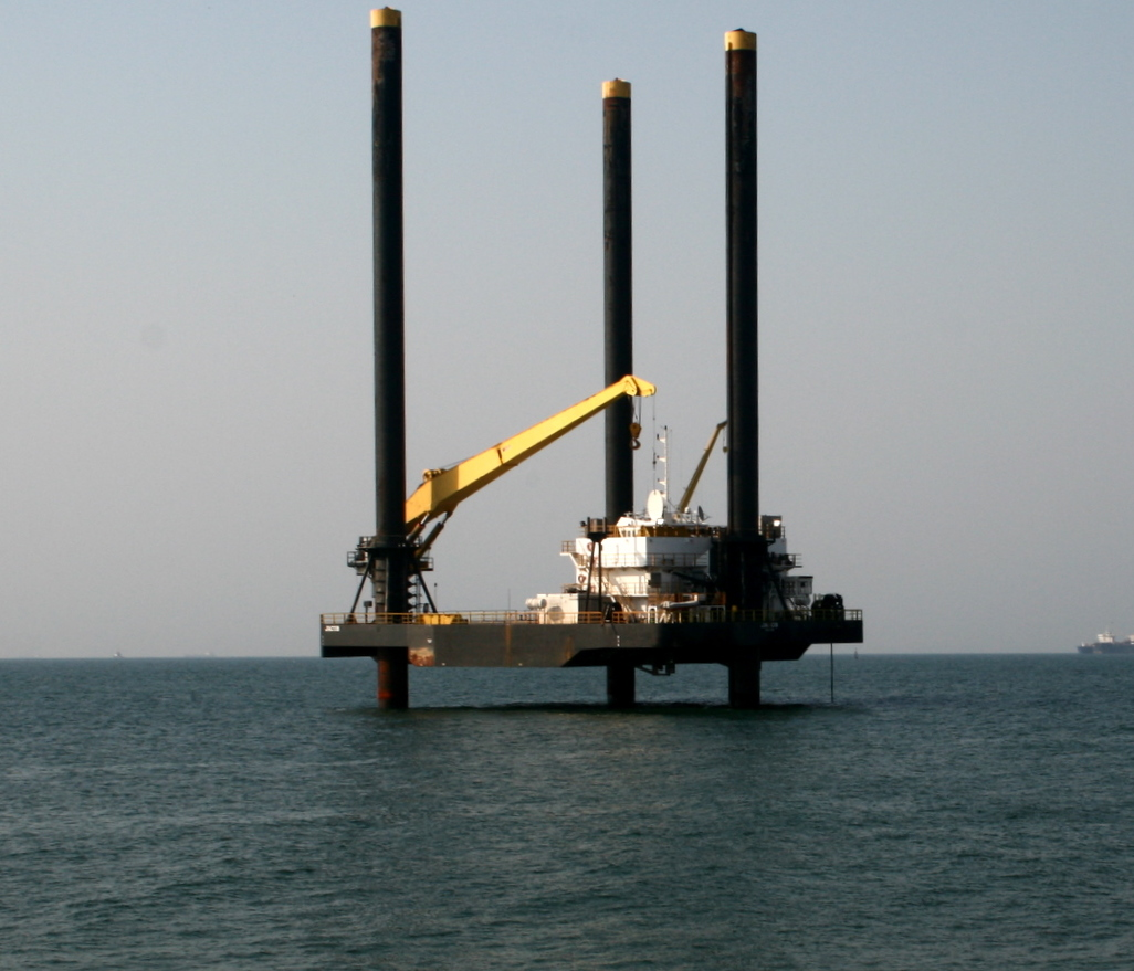 Offshore petrol platform prepared moving to final destination on high sea, Luanda, Angola, Atlantic Ocean